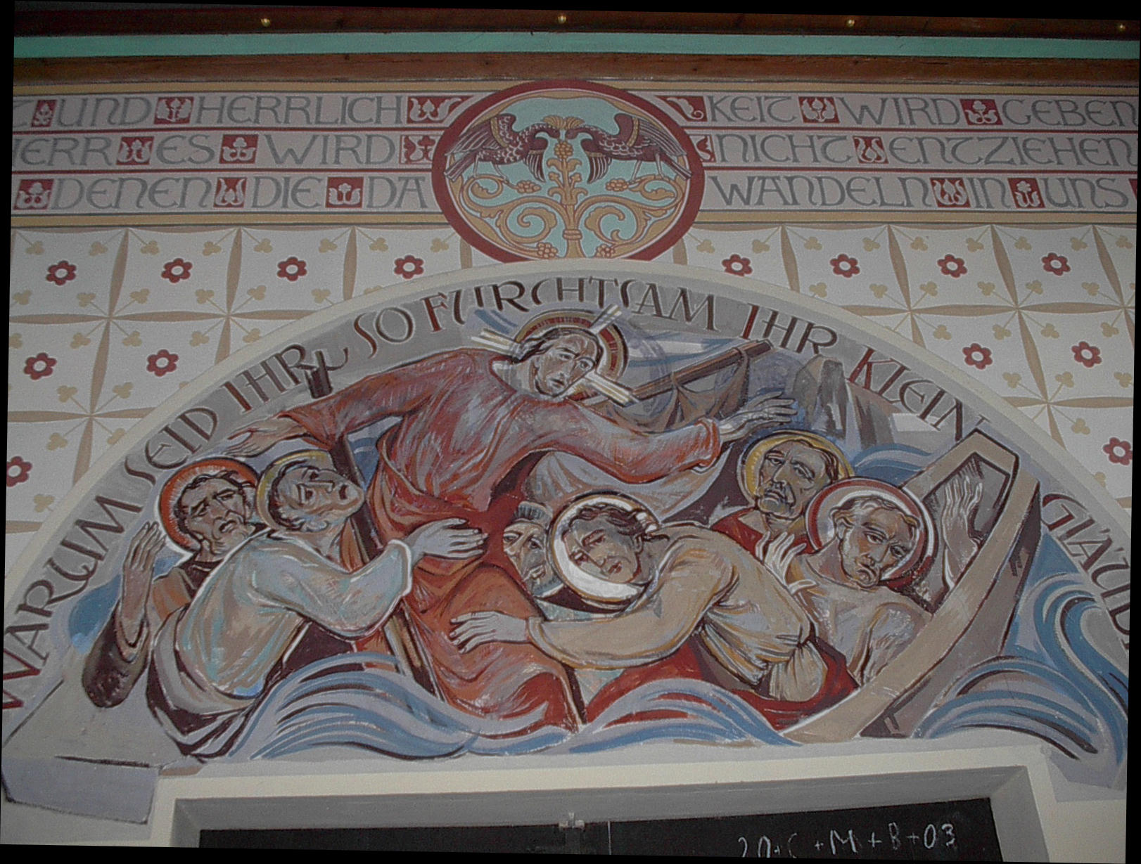 Die Apostel auf dem See Genezareth